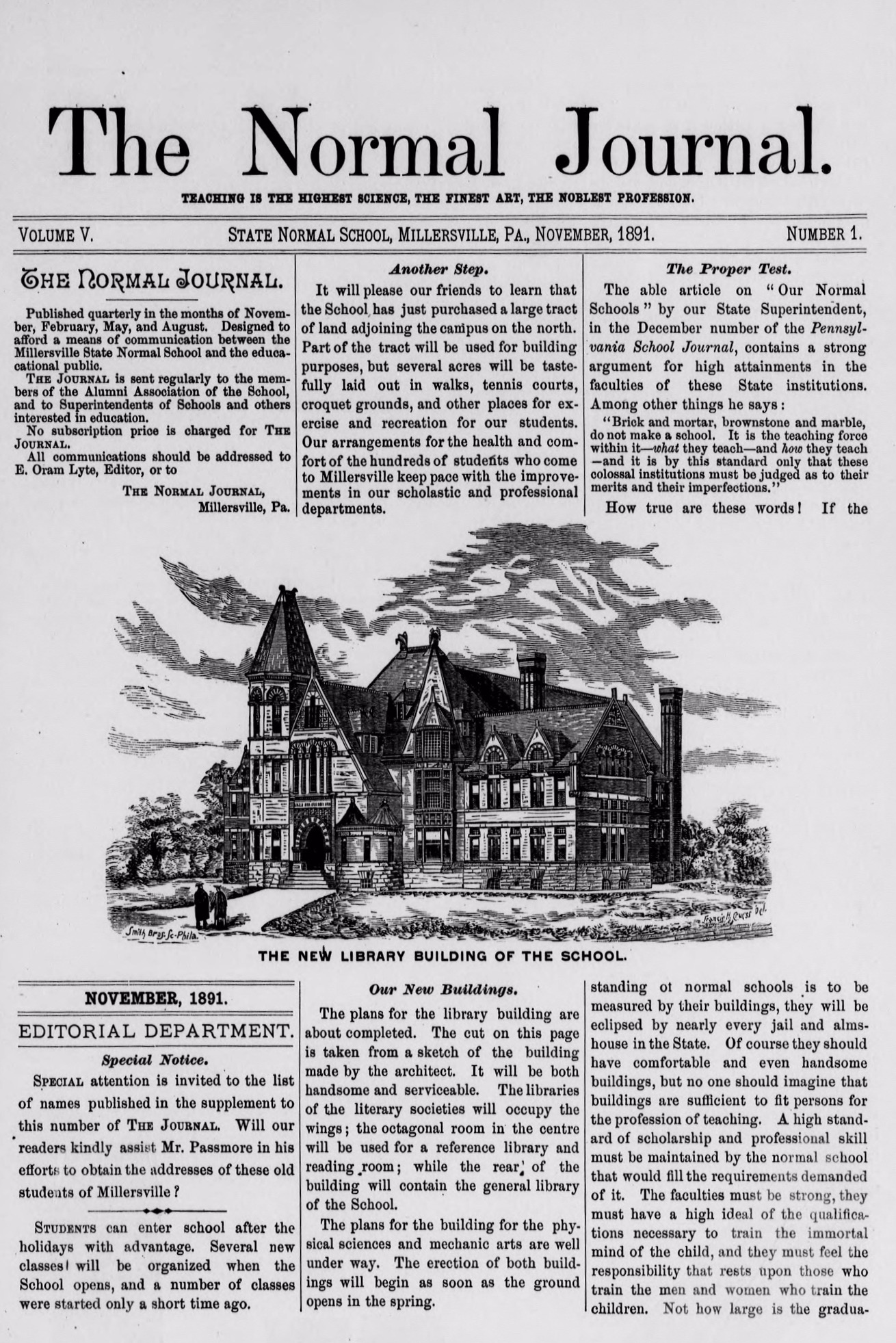 Scan of Volume V, No. 1 of Millersville State Normal School's Normal Journal.